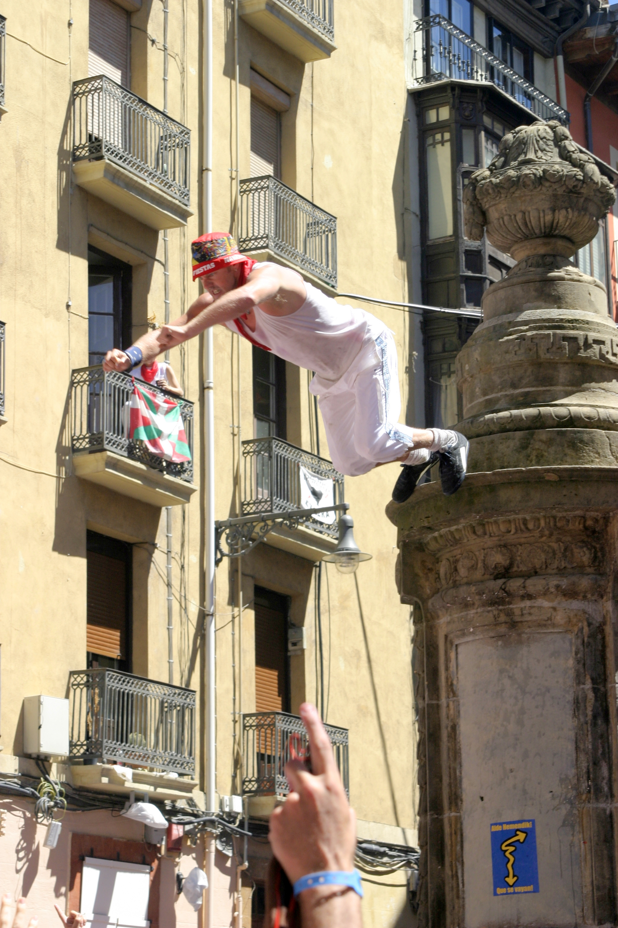 Jumping forn Nafarreria fountain in San Fermin, Iruñea.